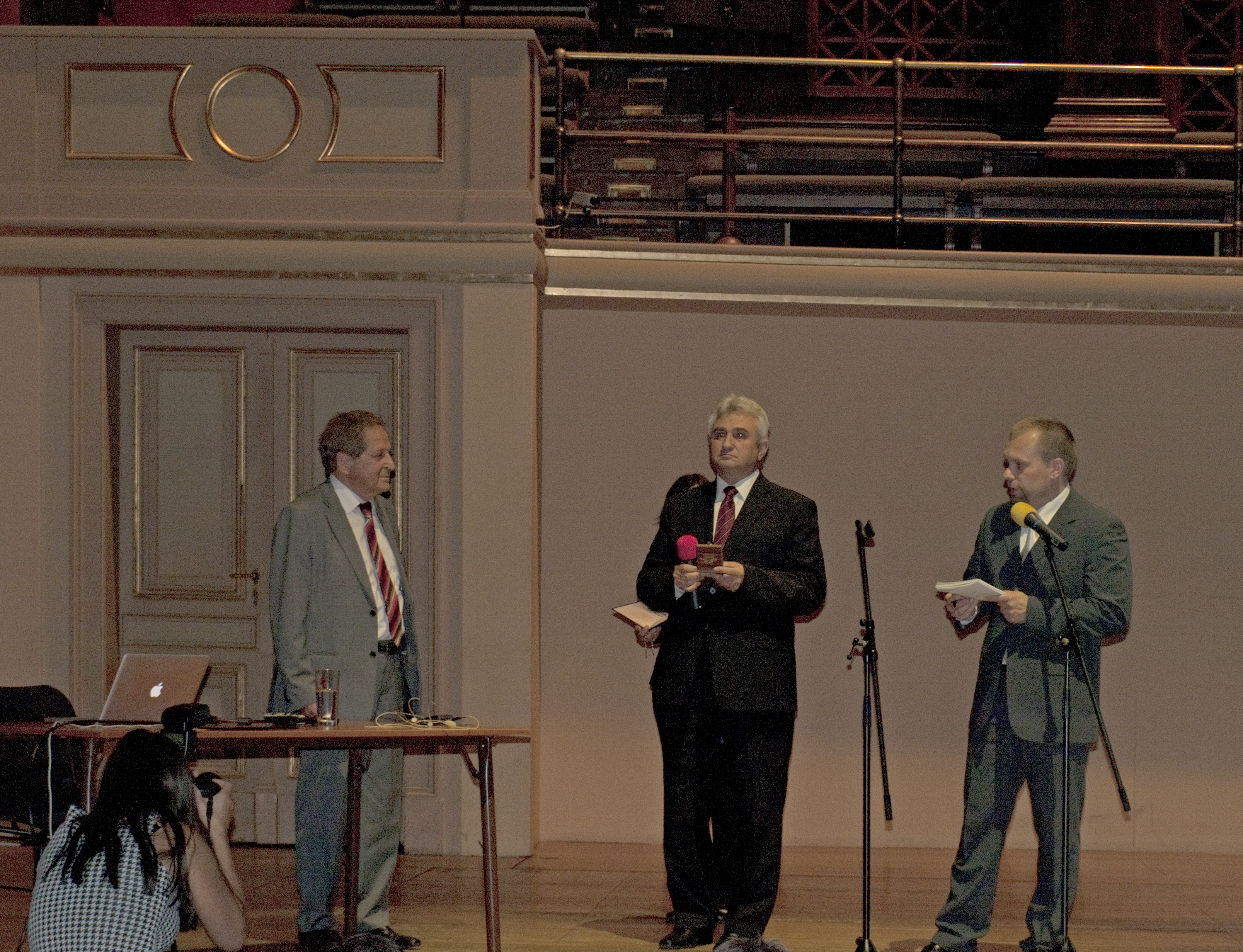 Milan Štěch, the president of the Czech Senate (center) hands in the Senate Medal to Claude Cohen-Tannoudji, French physicist and a Nobel Prize winner (left). On the right there is the translator. Prague, Rudolfinum, 28 July 2011